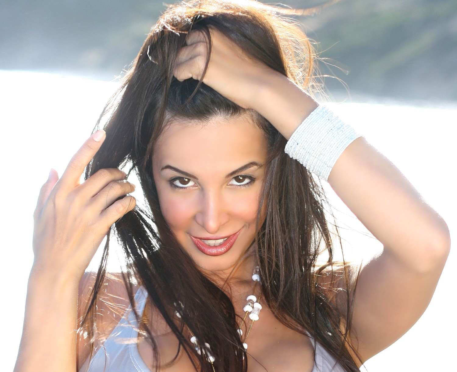 Cuban model and entertainer Mayra Verónica.